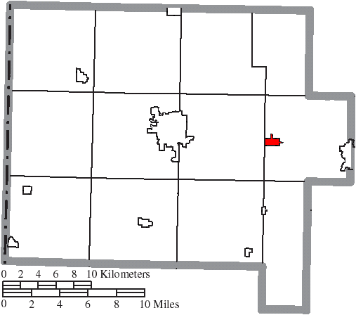 Map of the municipal and township boundaries of Van Wert County, Ohio, United States, as of the 2000 census, with the location of the village of Middle Point highlighted. Township borders are shown only in unincorporated areas in order to differentiate incorporated and unincorporated areas more clearly.